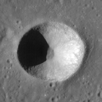 Lunar crater Biot (diameter is 13.0 km). Photo by Lunar Reconnaissance Orbiter, made with Wide Angle Camera 20 January 2011 from altitude 38 km on wavelength 604 nm. Sun elevation is 21.55°. Part of the image M150184681CE. The brightness is slightly increased.Resolution is 52.99 m/pixel, width of the photo is 18.4 km.